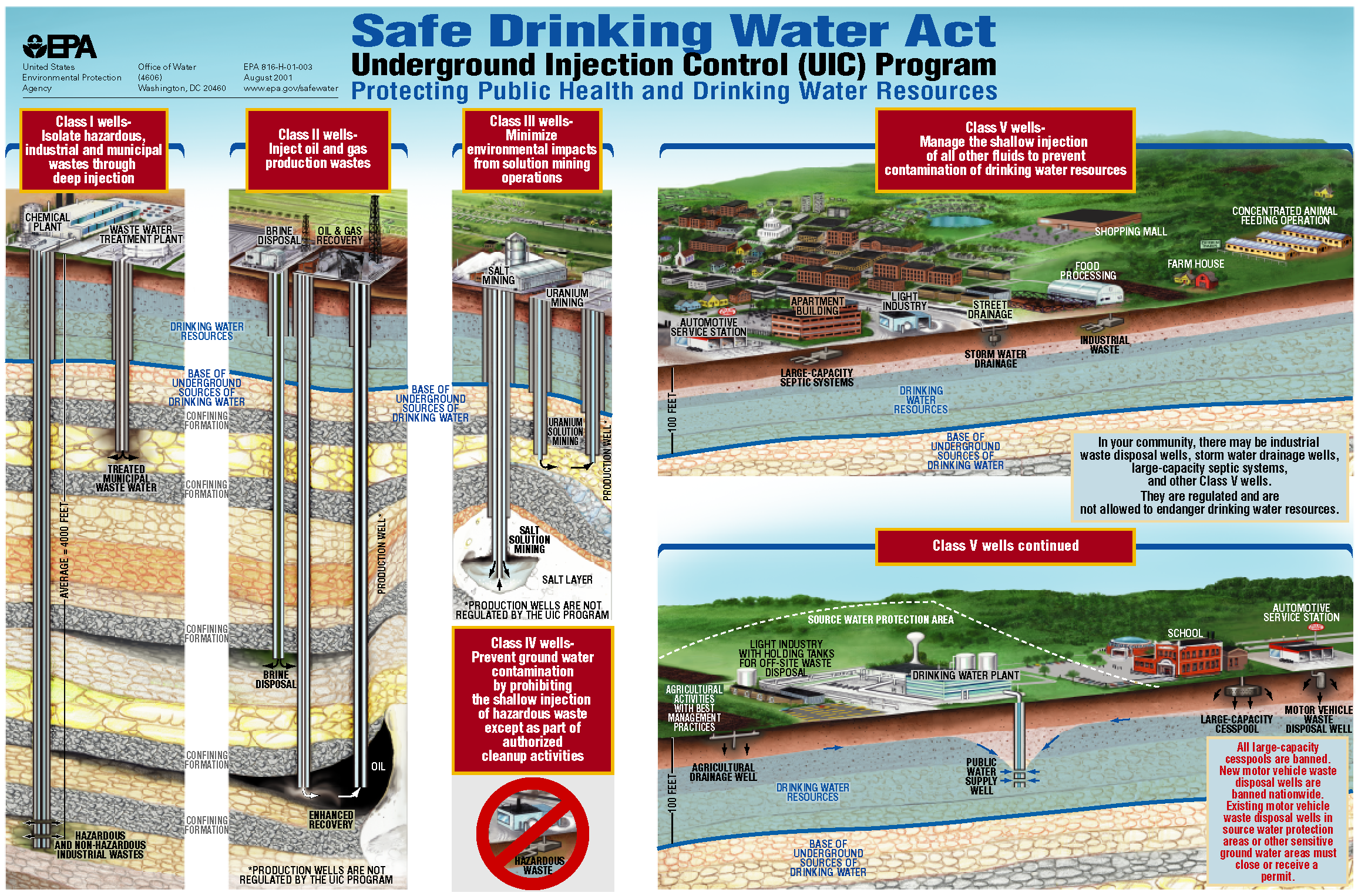 Poster illustrating injection well classes I through V in the U.S. Underground Injection Control program. (Note: Not shown in this poster are Class VI wells, for Geologic Sequestration of CO2, which were authorized by EPA in 2010.)